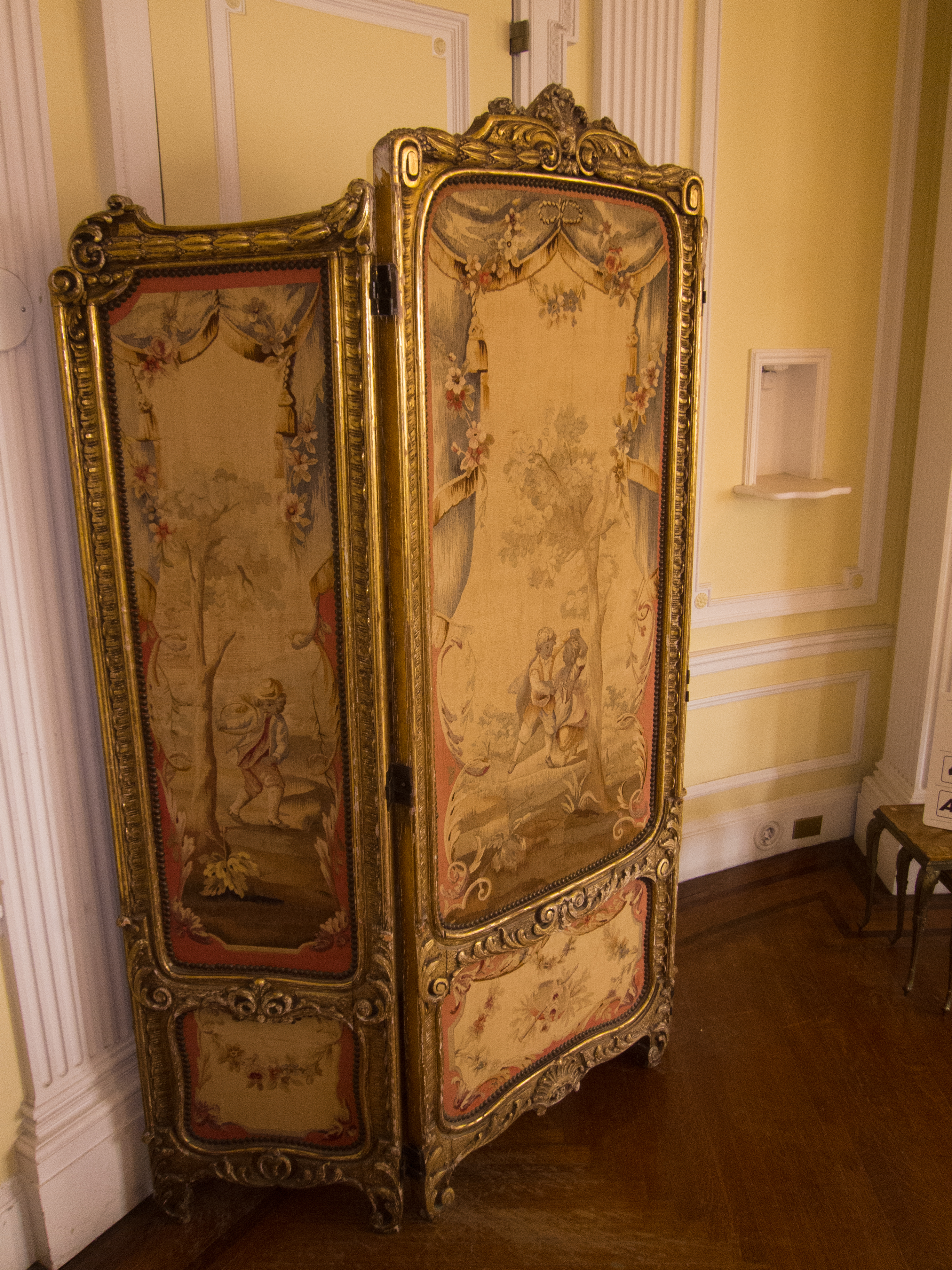 Folding screen in the Round Room, Casa Loma, Toronto, Ontario, Canada